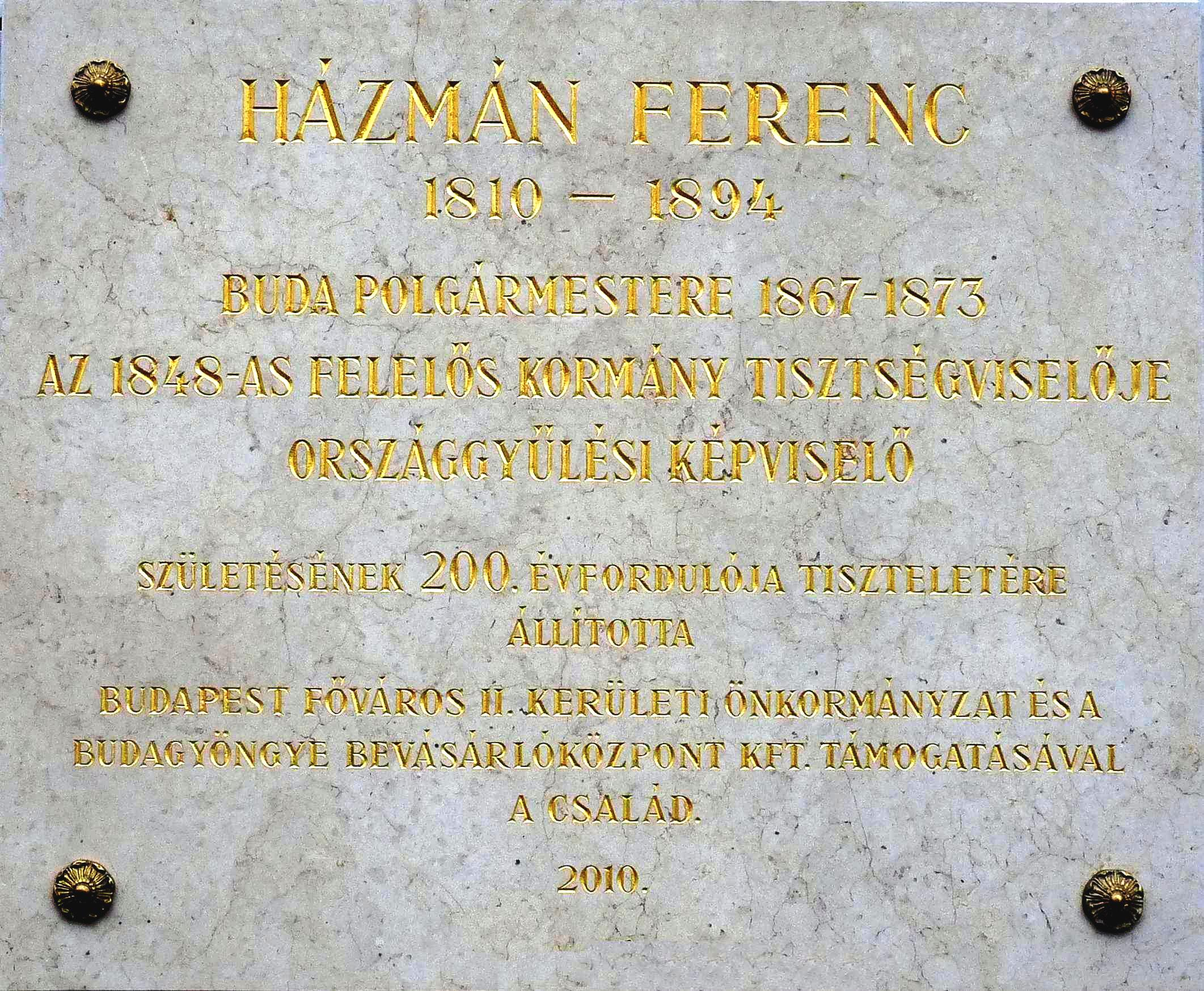 Commemorative plaque to Mr. Ferenc Házmán (1810–1894) placed in the street bearing his name. (Budapest, District II, Házmán Ferenc Street Nr 1). It was unveiled December 14, 2010.